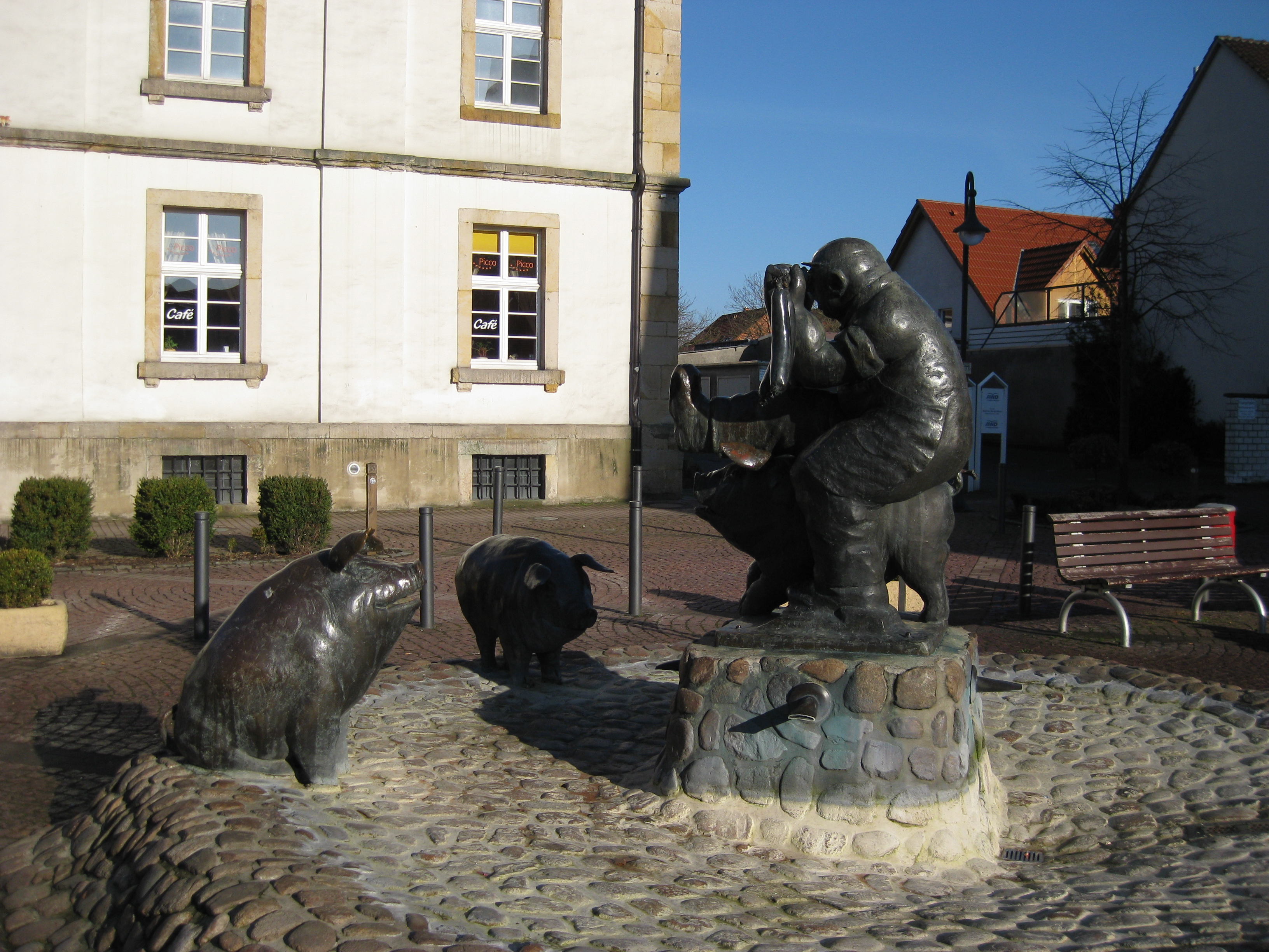 Pigs Well in Versmold